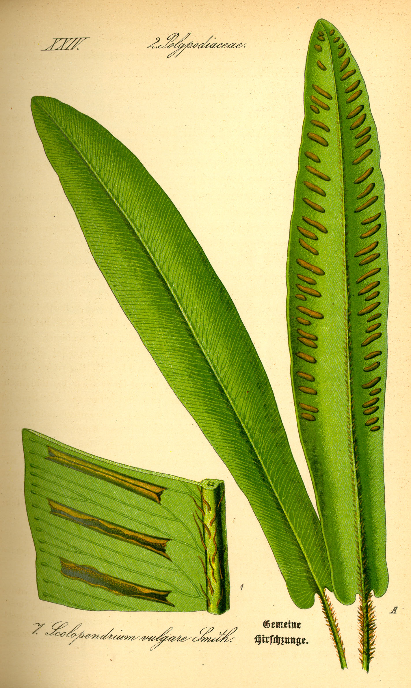 Asplenium scolopendrium Family Aspleniaceae Original book source: Prof. Dr. Otto Wilhelm Thomé Flora von Deutschland, Österreich und der Schweiz 1885, Gera, Germany Permission granted to use under GFDL by Kurt Stueber